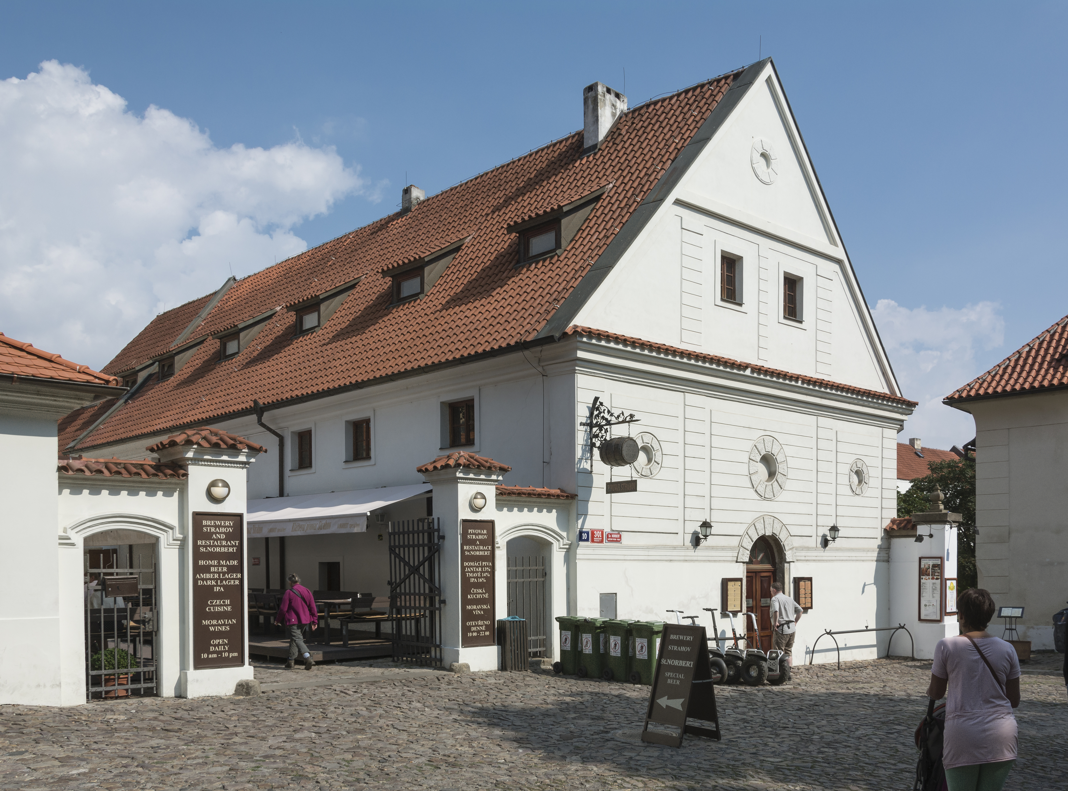 Strahov Brevery in Prague